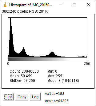 Histograma da imagem com correção de brilho. Fonte: Próprio autor